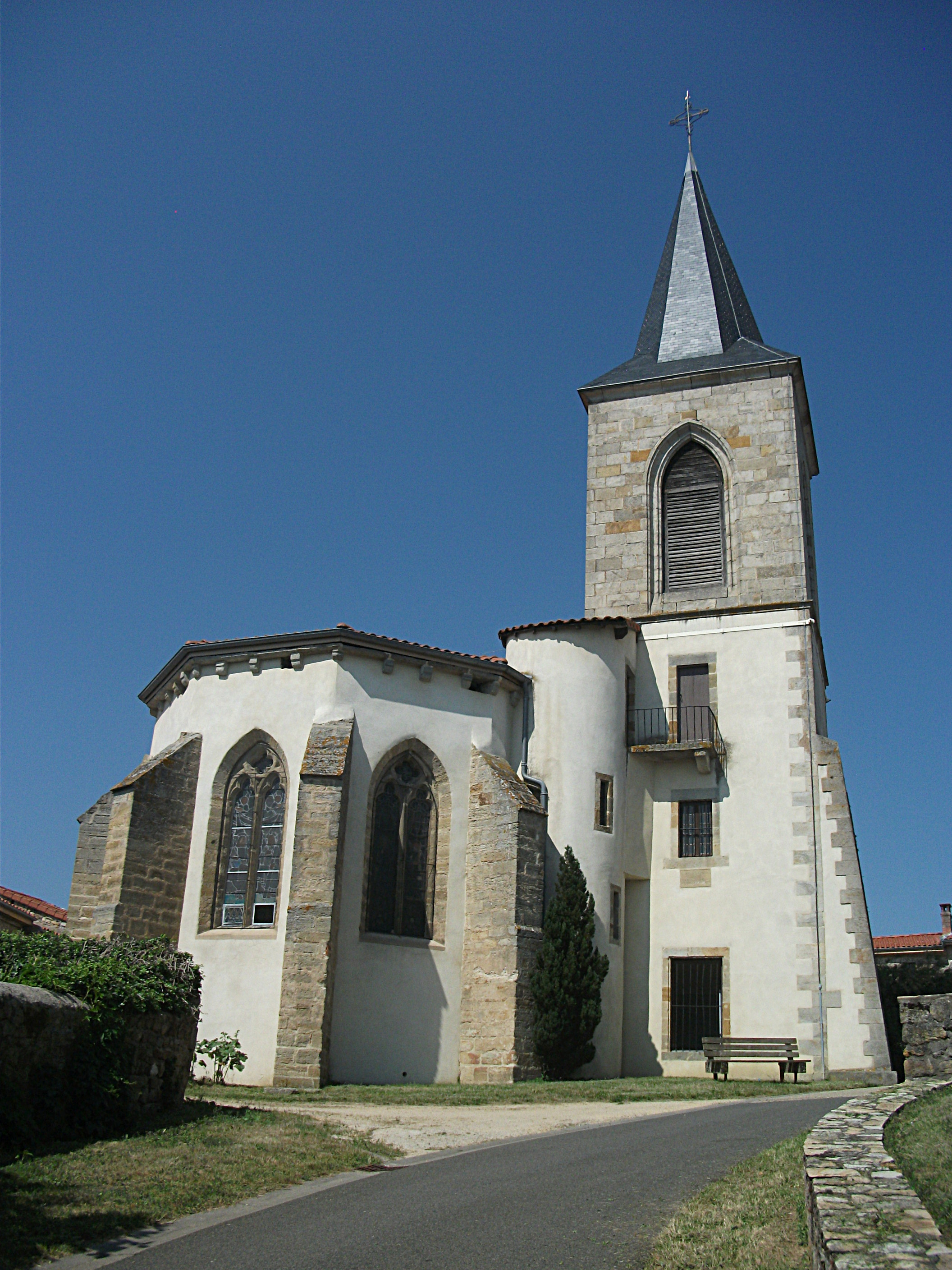 Church of Égliseneuve-près-Billom, Puy-de-Dôme, Auvergne-Rhône-Alpes, France. [14717]